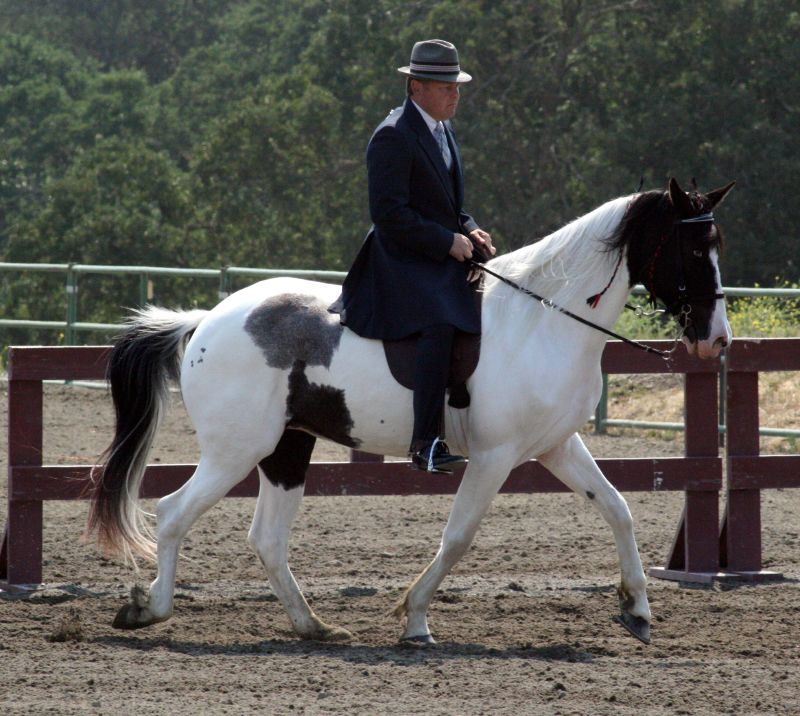 Spotted Saddle Horse, black tobiano with sabino or splashed white (or both)